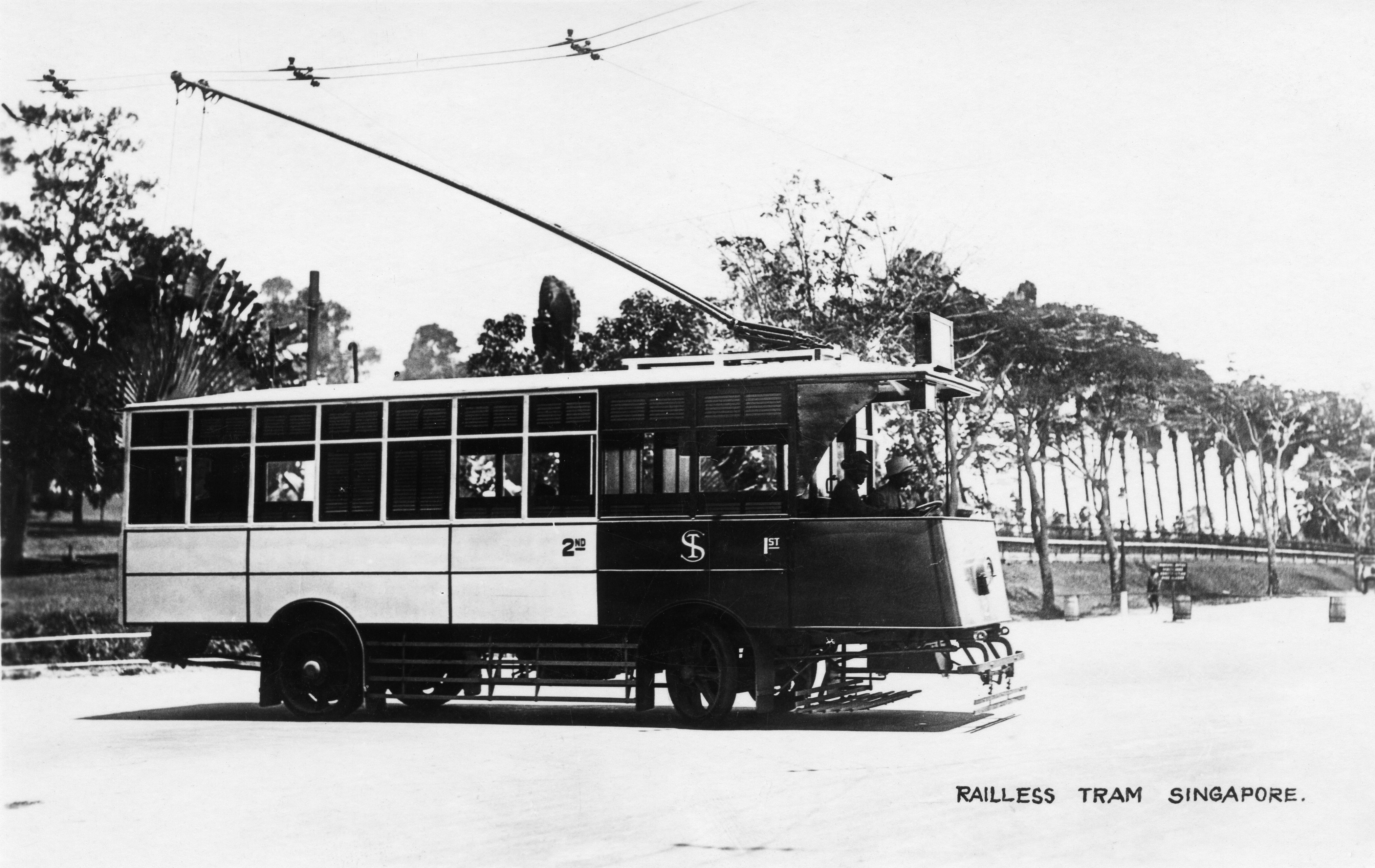 Side frontal view of a Singapore trolleybus. Note that the front is designated as first class and that the rest is second class.